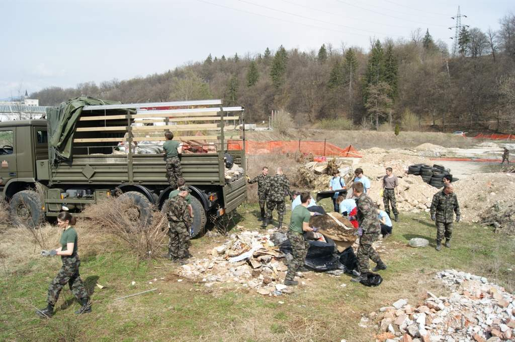 Slovenian armed forces in the environmental campaign Let's Clean Slovenia 2012.